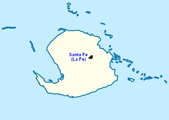 A locator map of the town of Santa Fe (shown in black) within the Isla de la Juventud, Cuba.